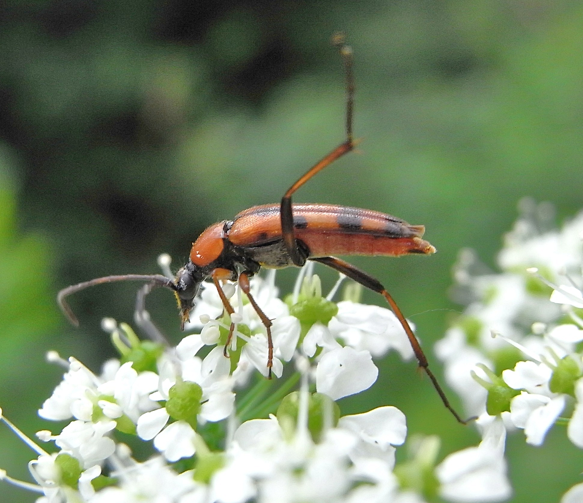 Stenurella septempunctata from Hungary Ricoh R8